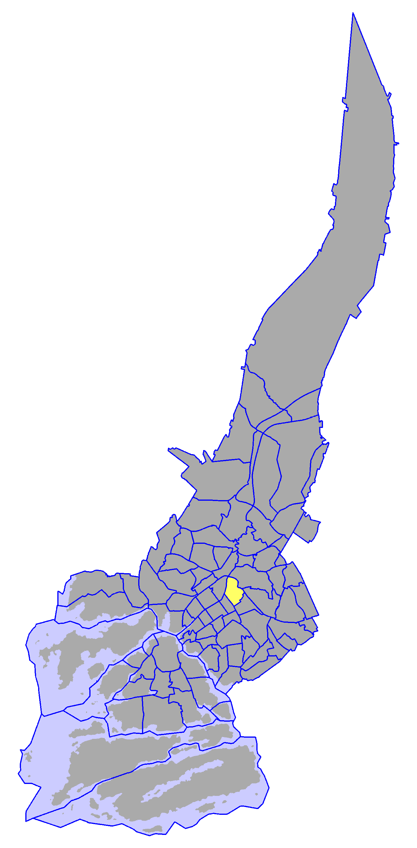 District number I, in Turku